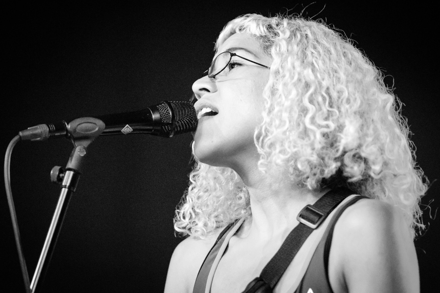 Charlotte Dos Santos at Energimølla. The concert was part of Kongsberg Jazzfestival and took place on 07. July 2018 in Kongsberg. Lineup: Charlotte Dos Santos (vocal) Jake Long (drums) Jack Stephenson Oliver (keyboard) James Rudi Creswick (bass guitar)